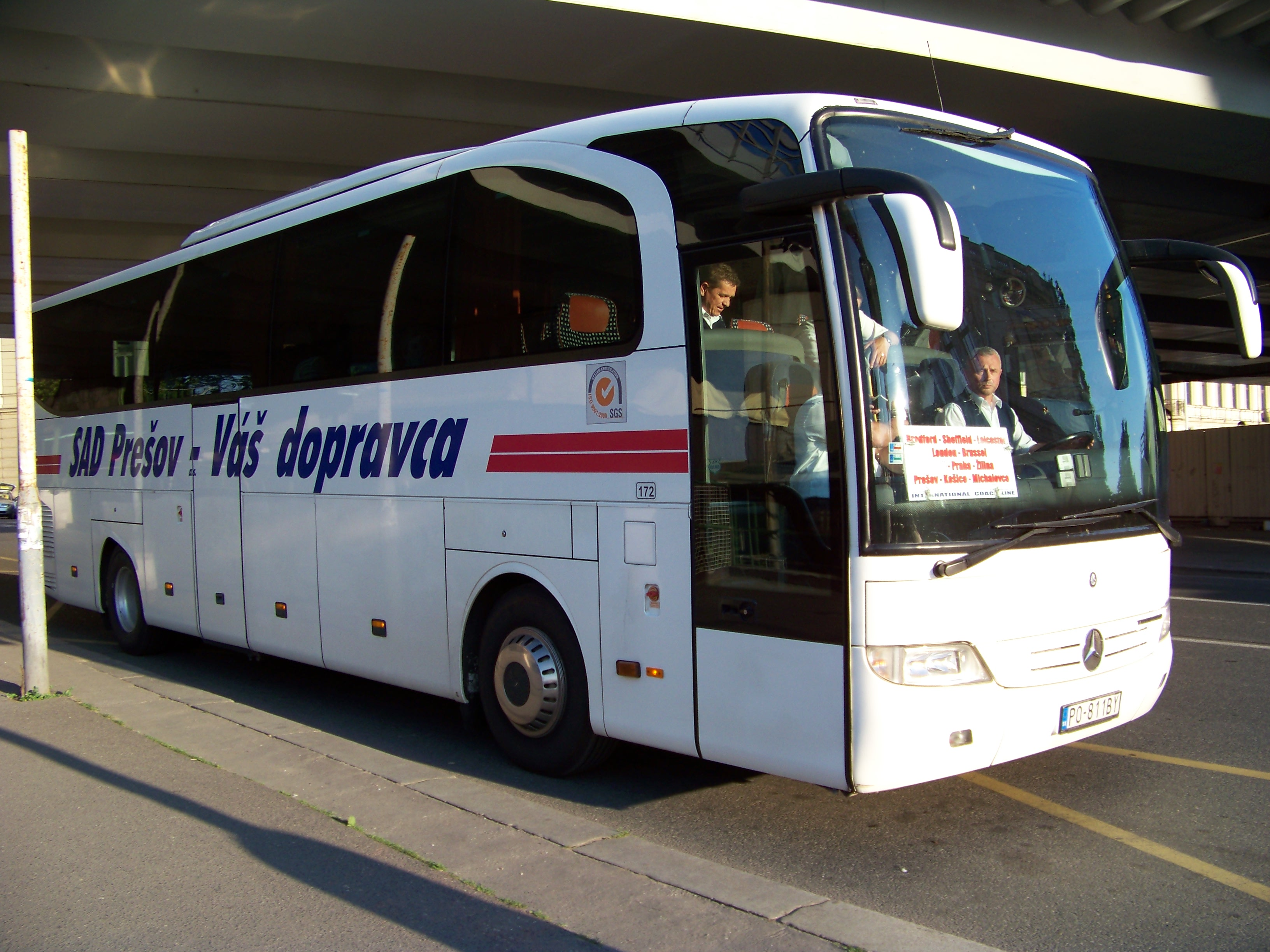 New Town, Prague, the Czech Republic. Křižíkova street, a bus of a Slovakian company SAD Prešov.